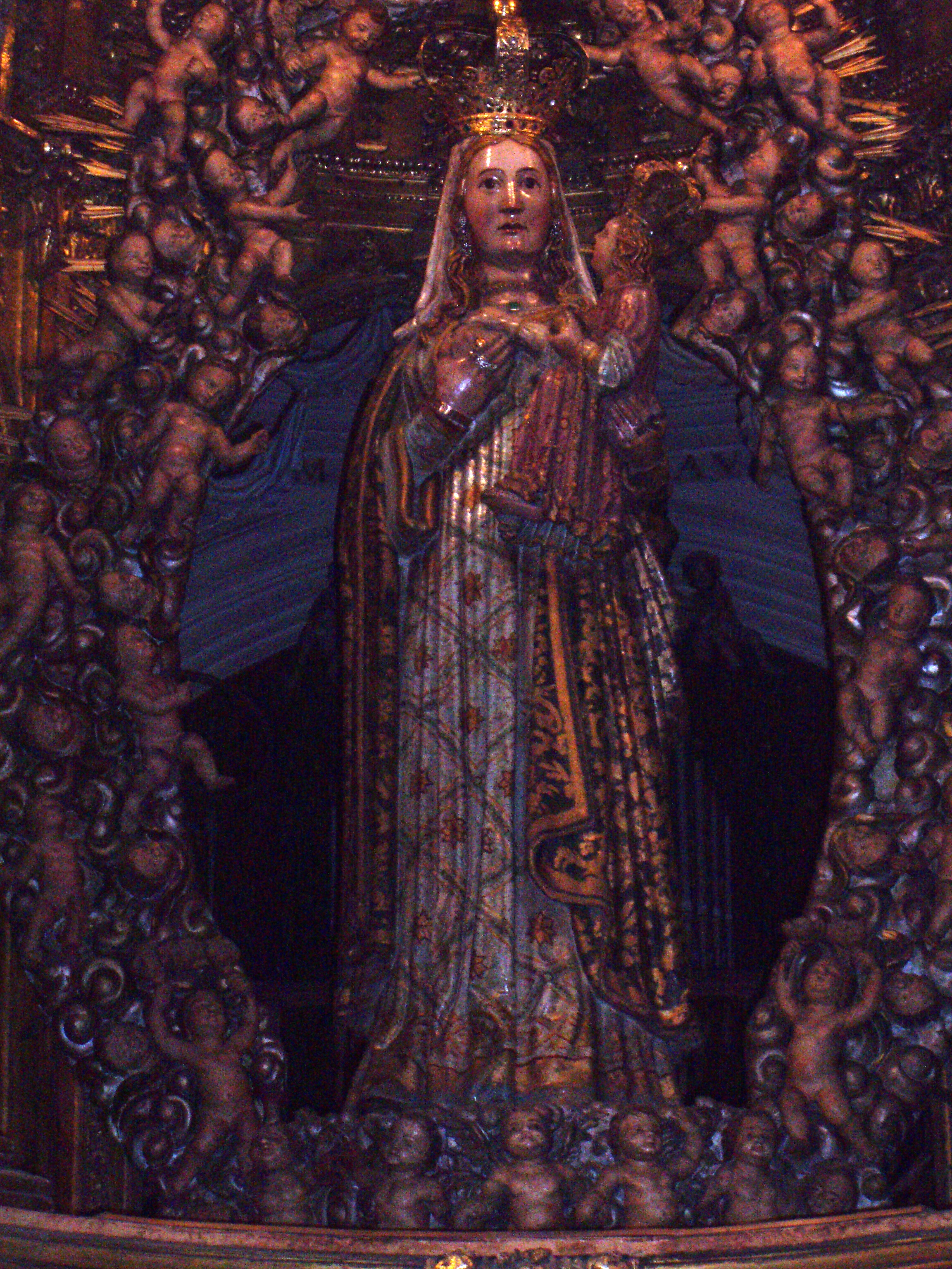 Cathedral of Lugo, in Galicia. (Spain).